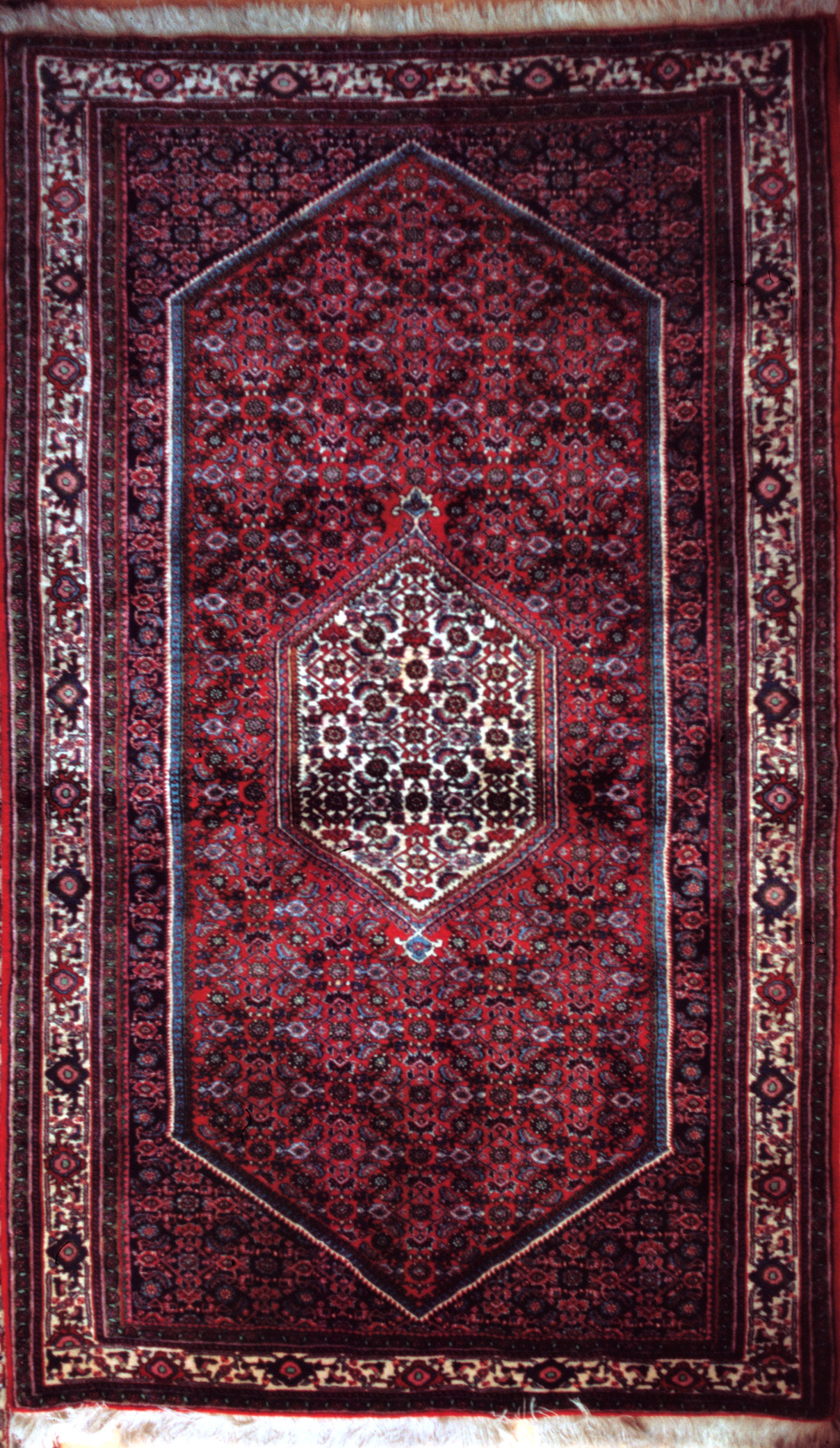 Fine rug from Bidjar, Iran